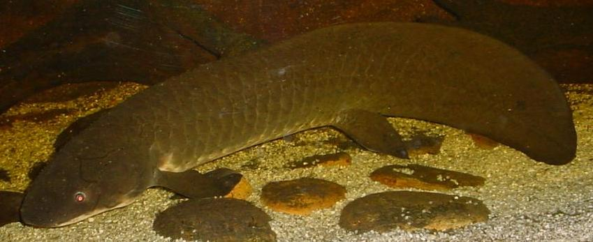 Australian lungfish (Neoceratodus forsteri)